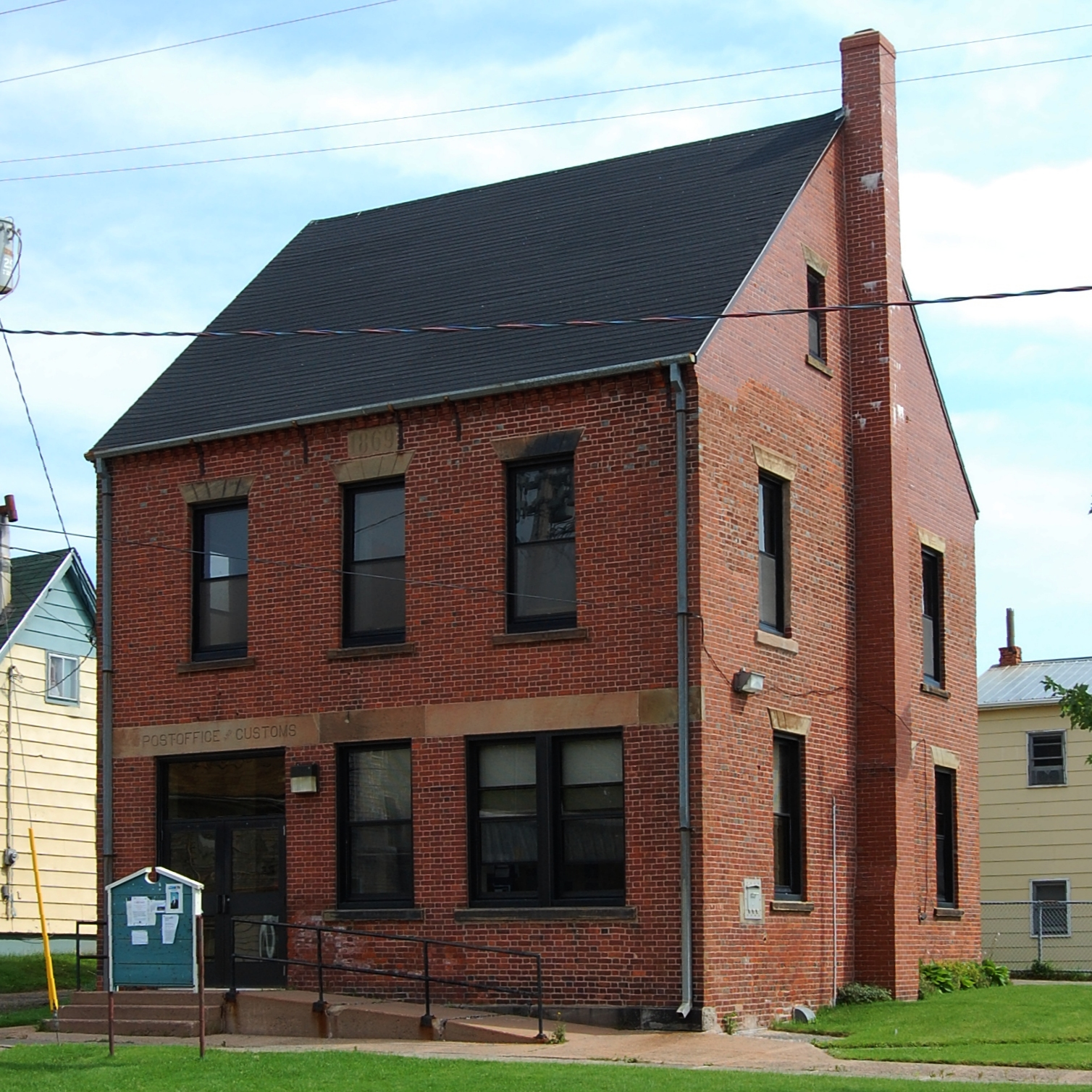 Customs and Post Office in Georgetown, Prince Edward Island, Canada.